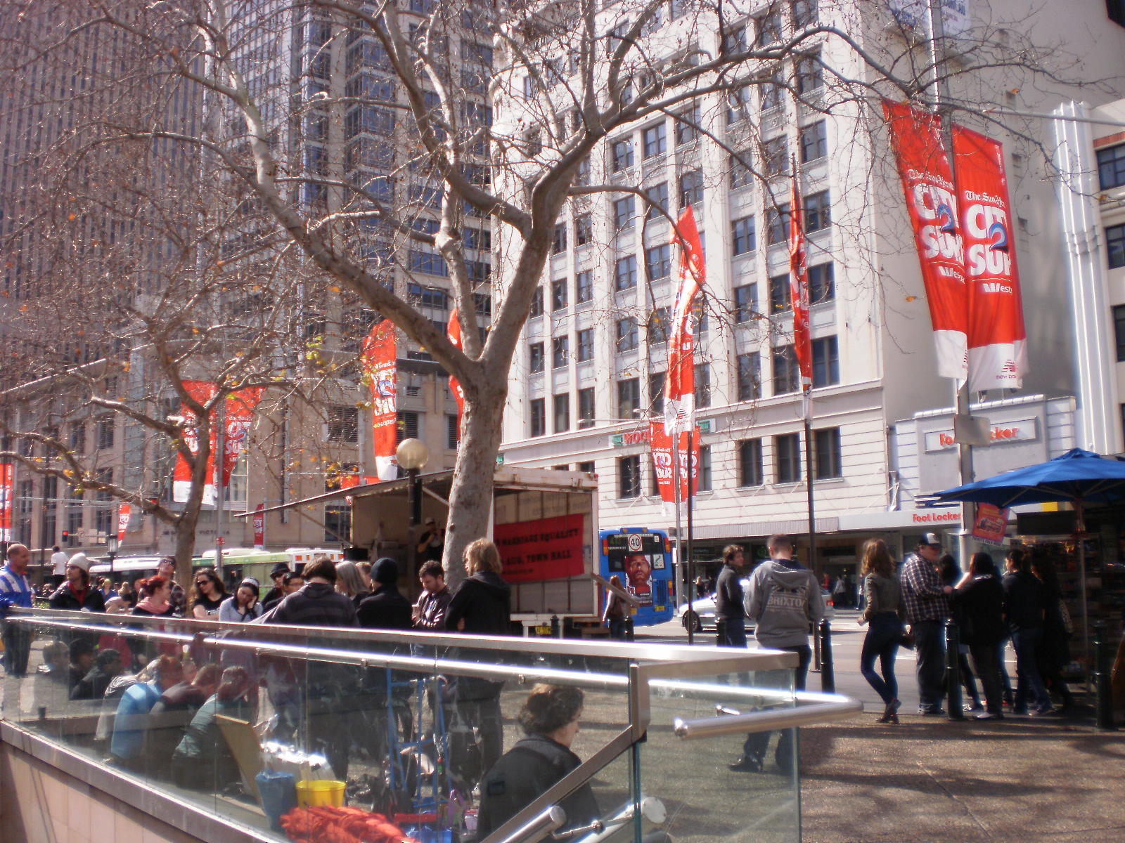 George Street in Sydney, NSW